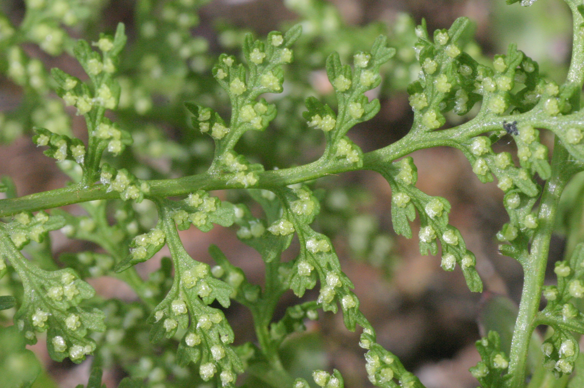 Cystopteris alpina